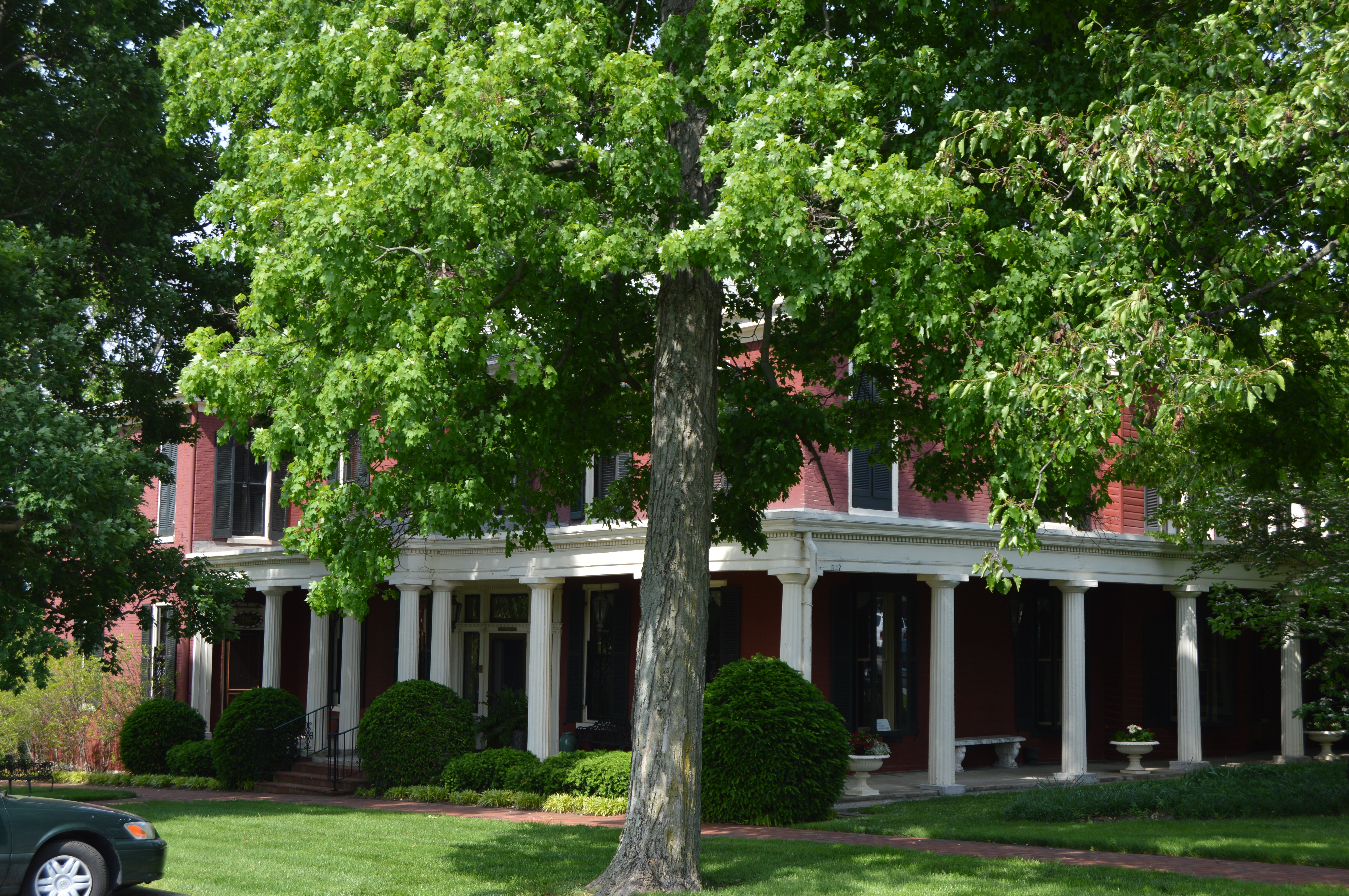 Main section of the Science Hill School, located at 525 Washington Street (U.S. Route 60) in Shelbyville, Kentucky, United States. Built in 1825, long a prestigious girls' school, and now a restaurant, it is listed on the National Register of Historic Places.